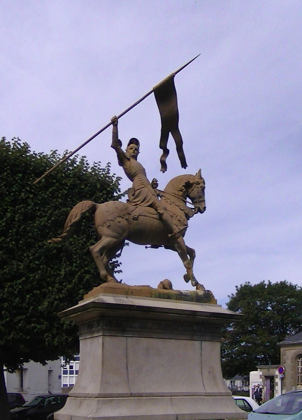 Statue of Joan of Arc at Basilique Saint-Donatien, Nantes